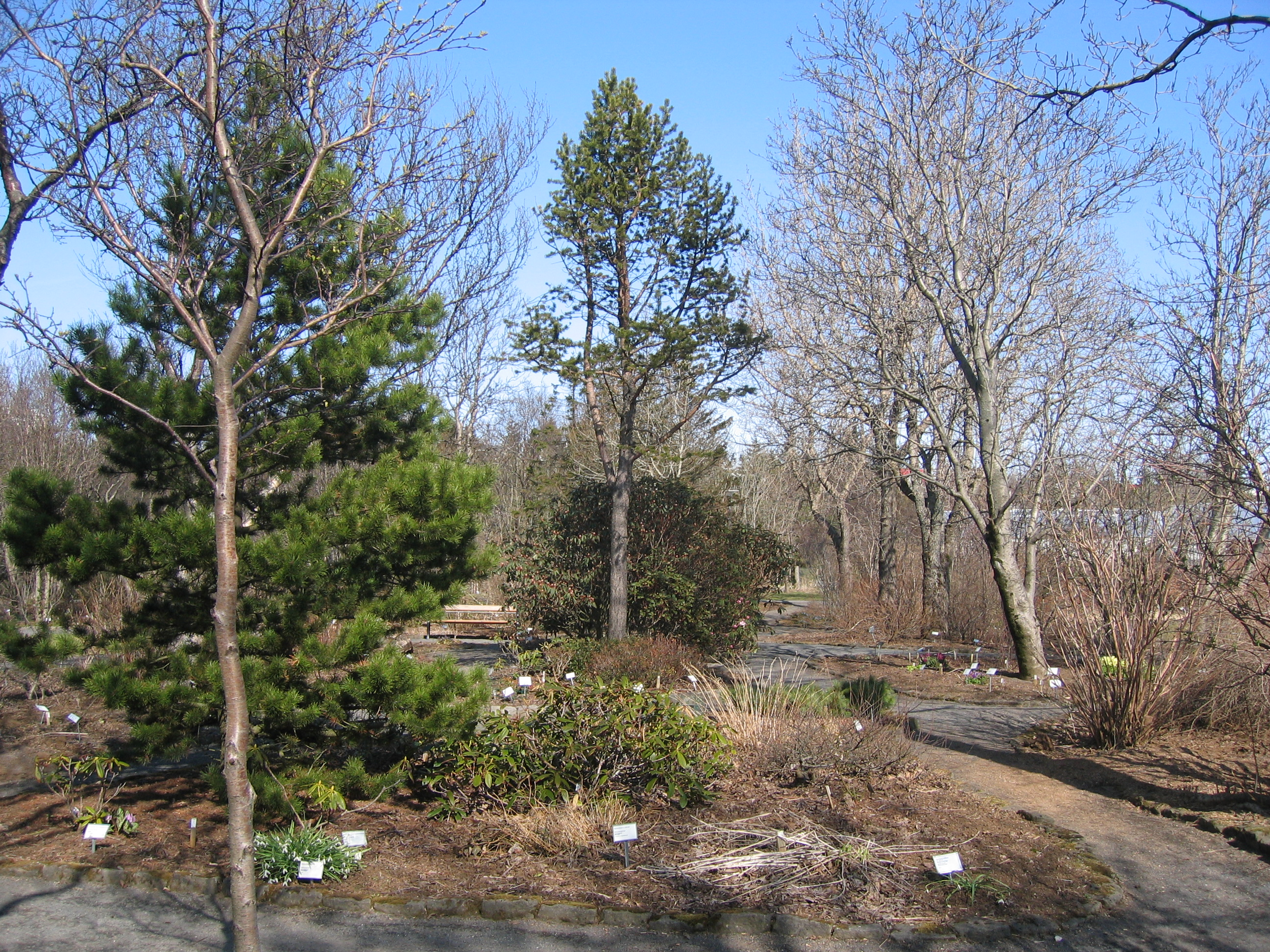 Trees in the Botanical gardens of Reykjavik in spring photo by Salvor Gissurardottir